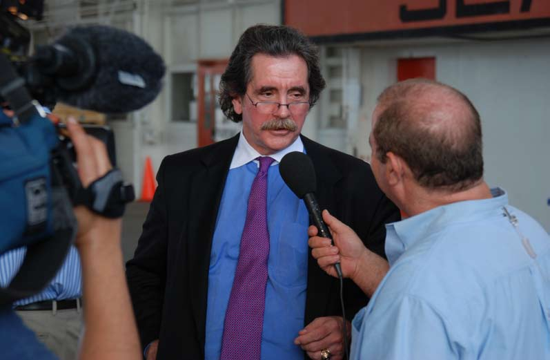 Thomas Durkin, a civilian defense counsel for alleged Sept. 11 co-conspirator Ramzi Bin al Shibh, speaks with media representatives during a recess outside the Expeditionary Legal Complex June 5. Media are frequent visitors to cover military commissions here. – JTF Guantanamo file photo by Petty Officer 2nd Class Nat Moger